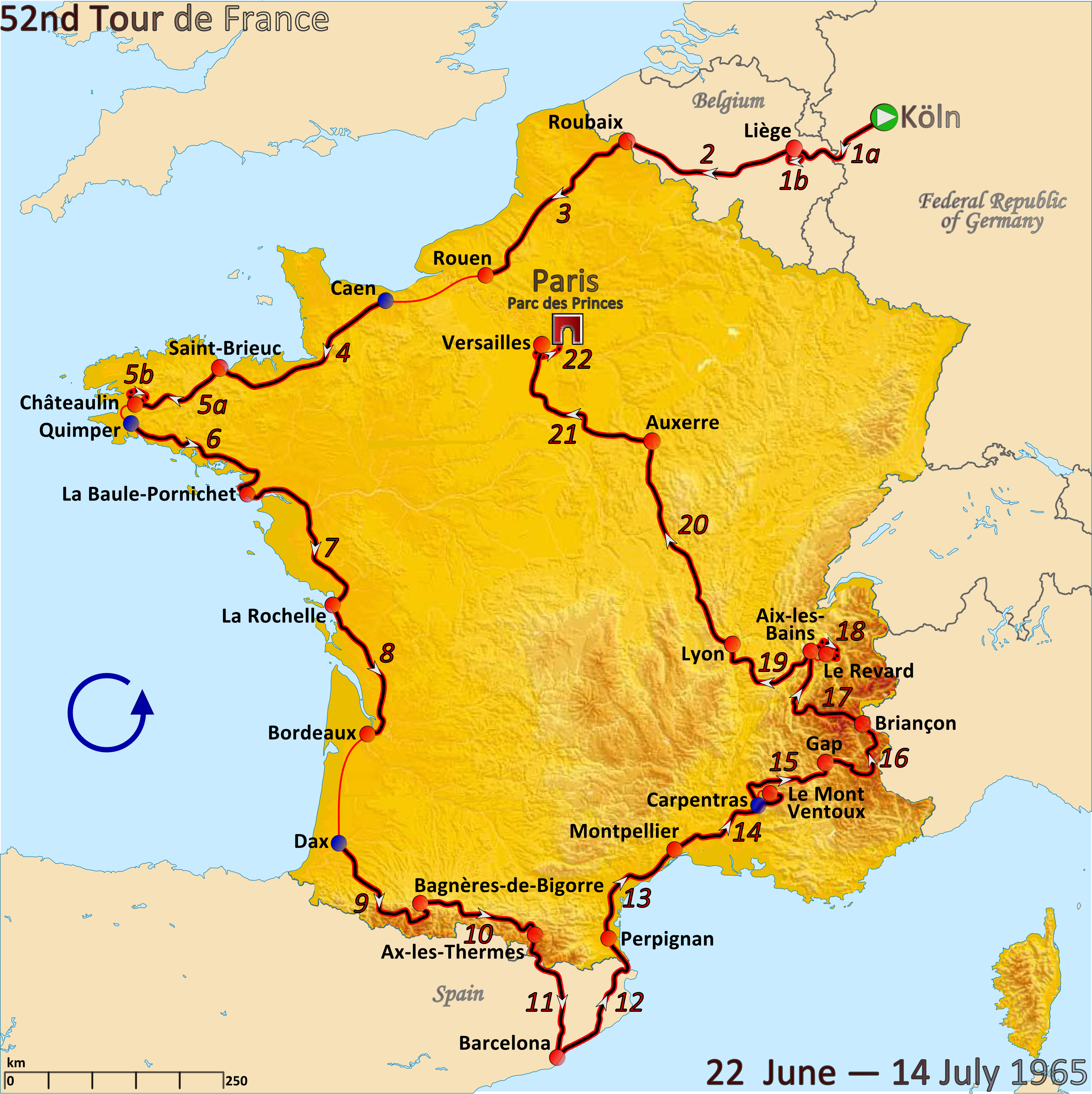 Map of the 1965 Tour de France created in Inkscape using accurate stage maps from touratlas.nl.